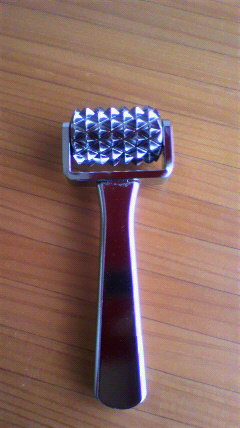 this device is used acupuncture for infant